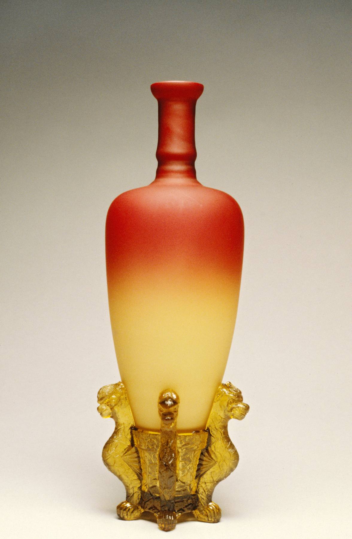 An 18th-century Chinese porcelain vase, reputed to be the finest of its kind, was sold for $18,000 at the auction of the Mary J. Morgan estate in 1886 in New York. So controversial was the price that William T. Walters never admitted to being the purchaser (the vase is presently displayed in Hackerman House). Almost immediately, replicas of the vase appeared in glass and ceramic. Known as "Peach Blow" vases, the glass versions were made with layered glass-red to yellow on the exterior and milky white inside.